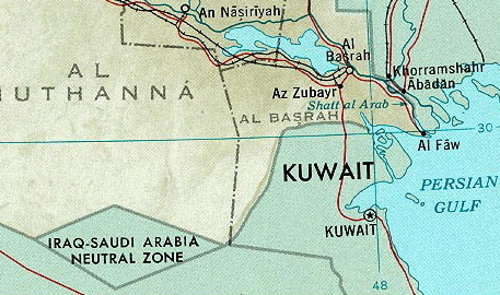 The Neutral Zone (along with Basra, Iran, Kuwait, and the Shatt al-Arab). From a CIA map of the area.